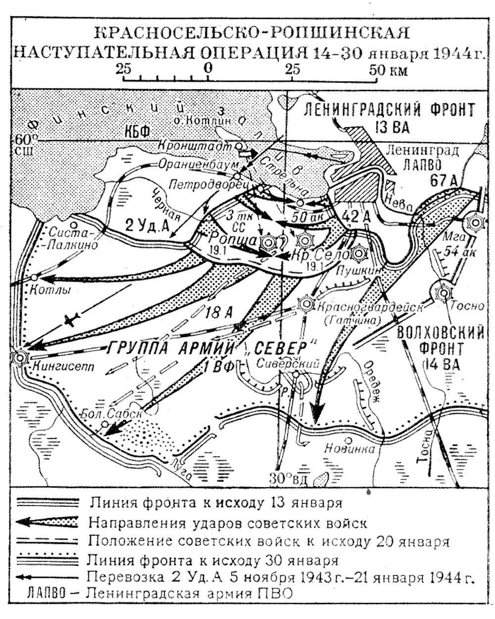 Soviet map of Krasnoe Selo-Ropsha Offensive